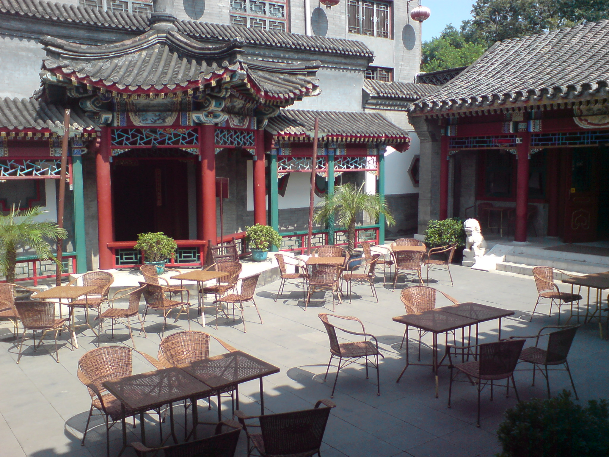 A hotel converted from a classic XIXth century traditional courtyard house in Beijing, China